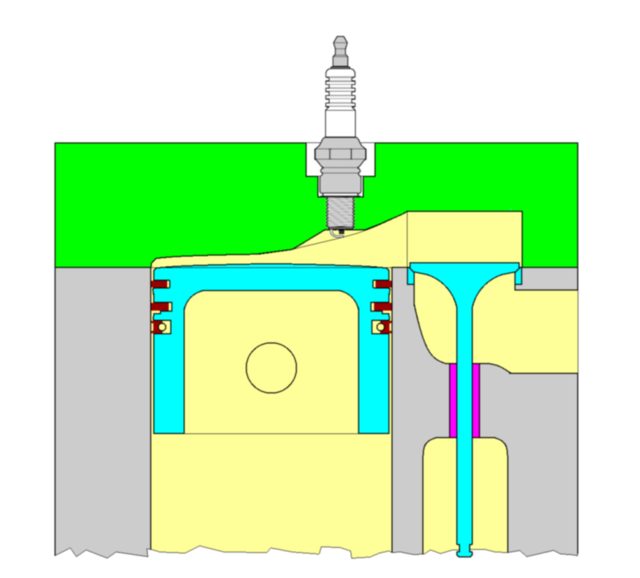 This is a simplified illustration of a side-valve engine's cylinder, piston, poppet valve, combustion chamber and spark plug. The other valve is not shown.